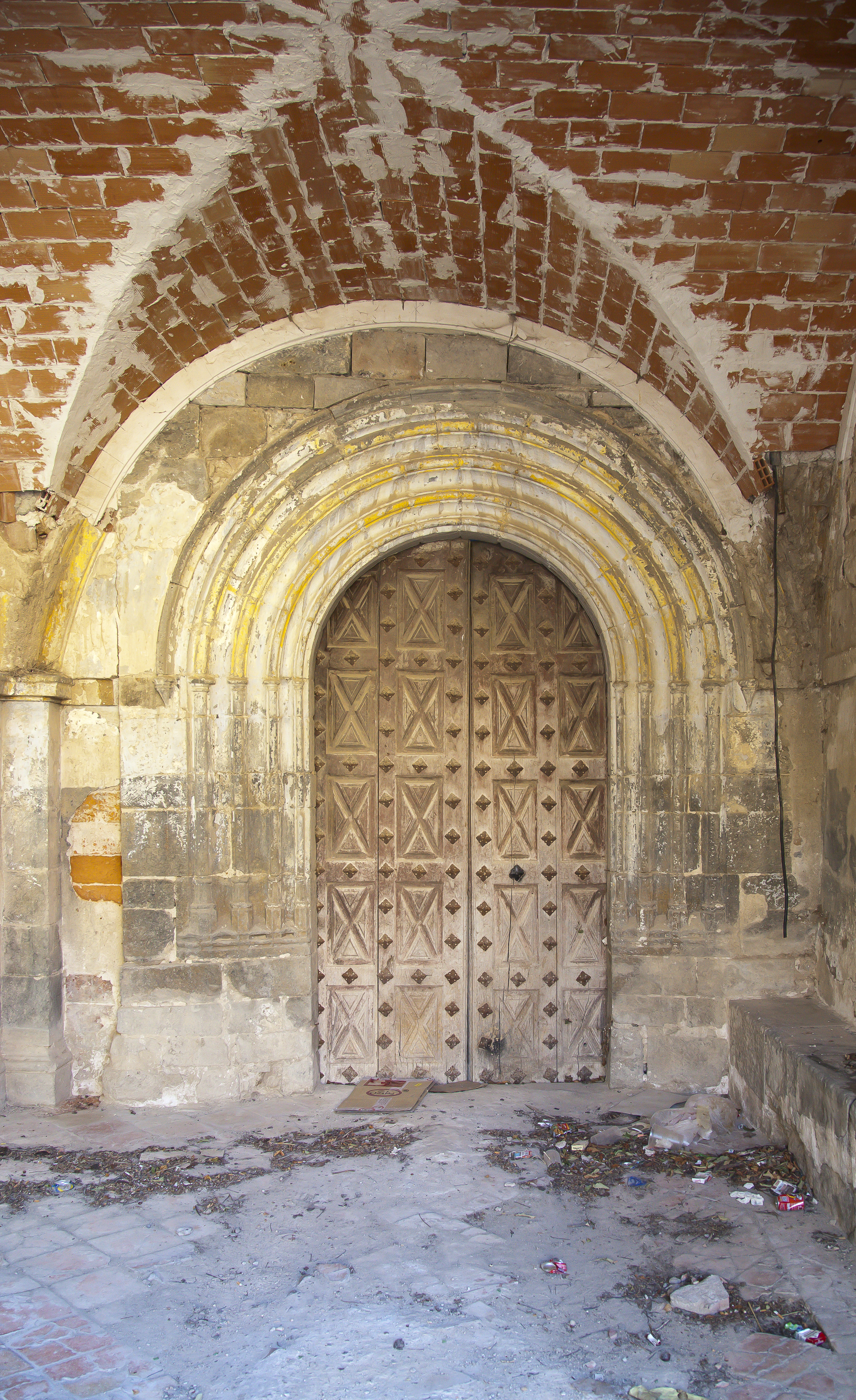 Church of the Virgin of Magaña, Ágreda, Spain